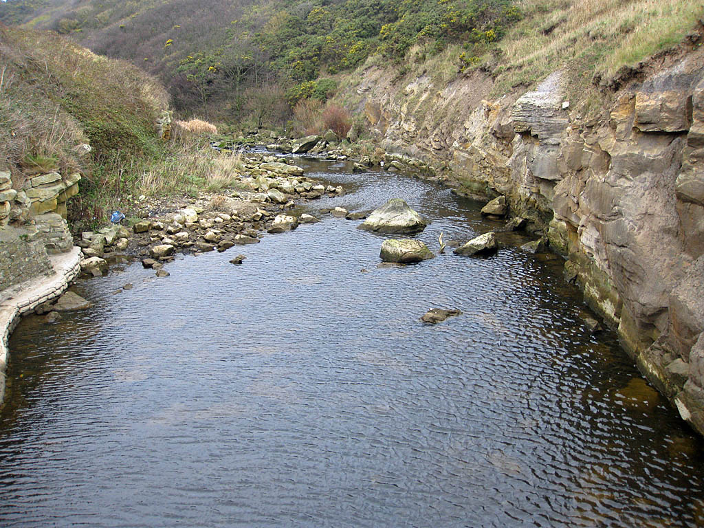 Scalby Beck